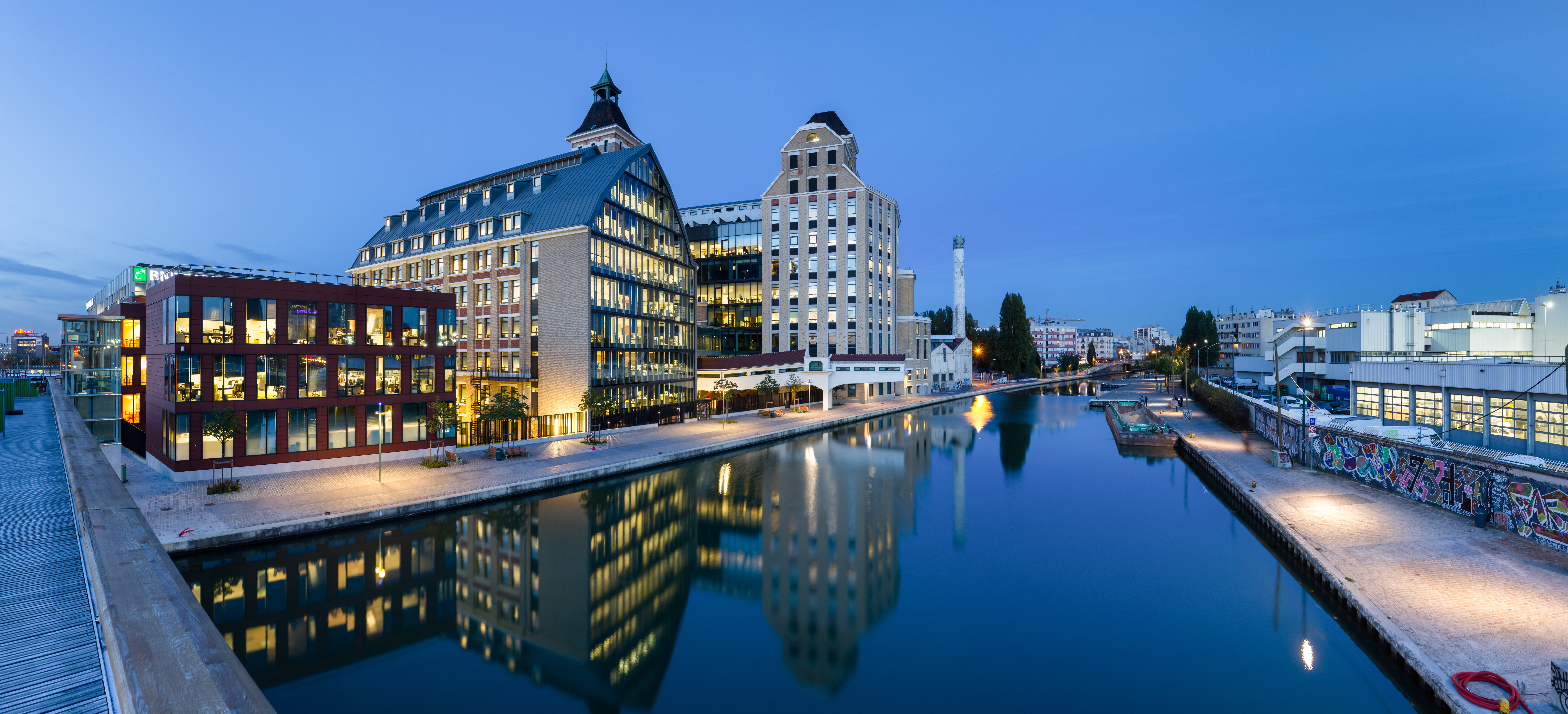 Pantin Mills, and canal of Ourcq, in Pantin, Seine-Saint-Denis, France. Renovated in the years 2000s, Pantin Mills now serve as offices and headquarters for BNP Paribas Securities Services. This picture is a mosaic of 13 pictures each taken at 21mm, f/8.0, 3.5 sec and ISO 100, with a Canon 7D + Canon 17-55 f/2.8 mounted on. Stitching itself was done with Hugin. Resulting horizontal FOV is 164°.